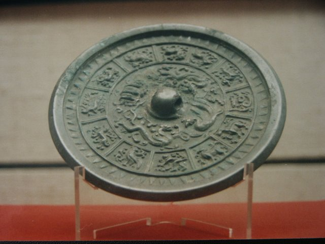 A bronze mirror from the Chinese Han Dynasty